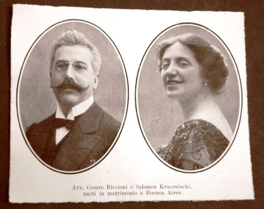 Framed pictures of Solomiya Krushelnytska and husband, Cesare Riccioni, after their marriage in Buenos Aires.